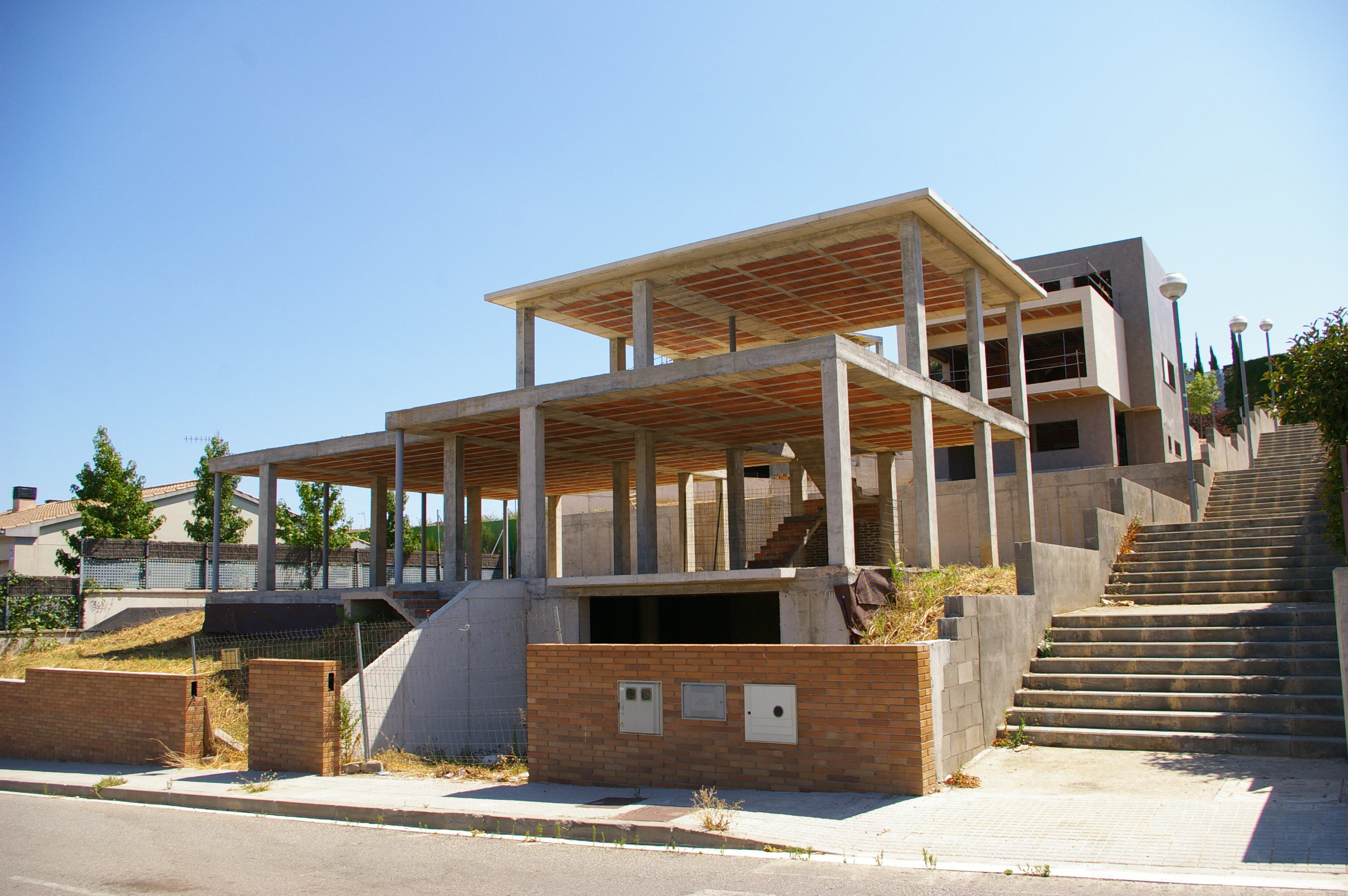 Abandoned building site in Canovelles, Catalonia.